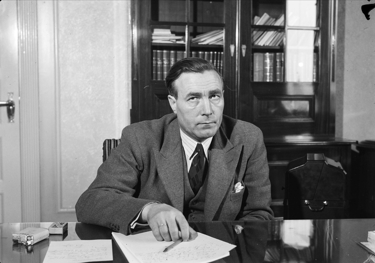 Olav Meisdalshagen (17 March 1903 – 21 November 1959) was a Norwegian politician for the Labour Party best known for serving as the Norwegian Minister of Finance from December 1947 to November 1951 and as the Norwegian Minister of Agriculture from January 1955 to May 1956.